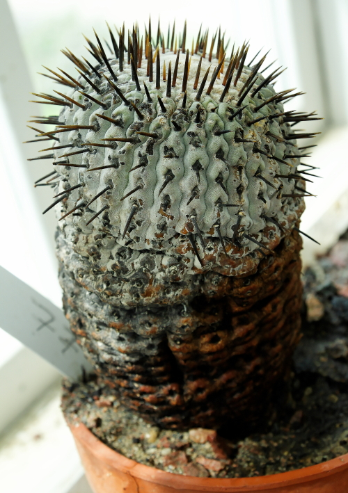 Copiapoa cinerea ssp. columna-alba